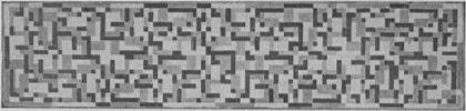 Theo van Doesburg. Design for a tiled floor in 'De Vonk'. s 1918. Material, dimensions and location unknown. From Theo van Doesburg. Drie voordrachten over de nieuwe beeldende kunst. Amsterdam: Maatschappij voor goede en goedkoope lectuur, 1919: p. 102.